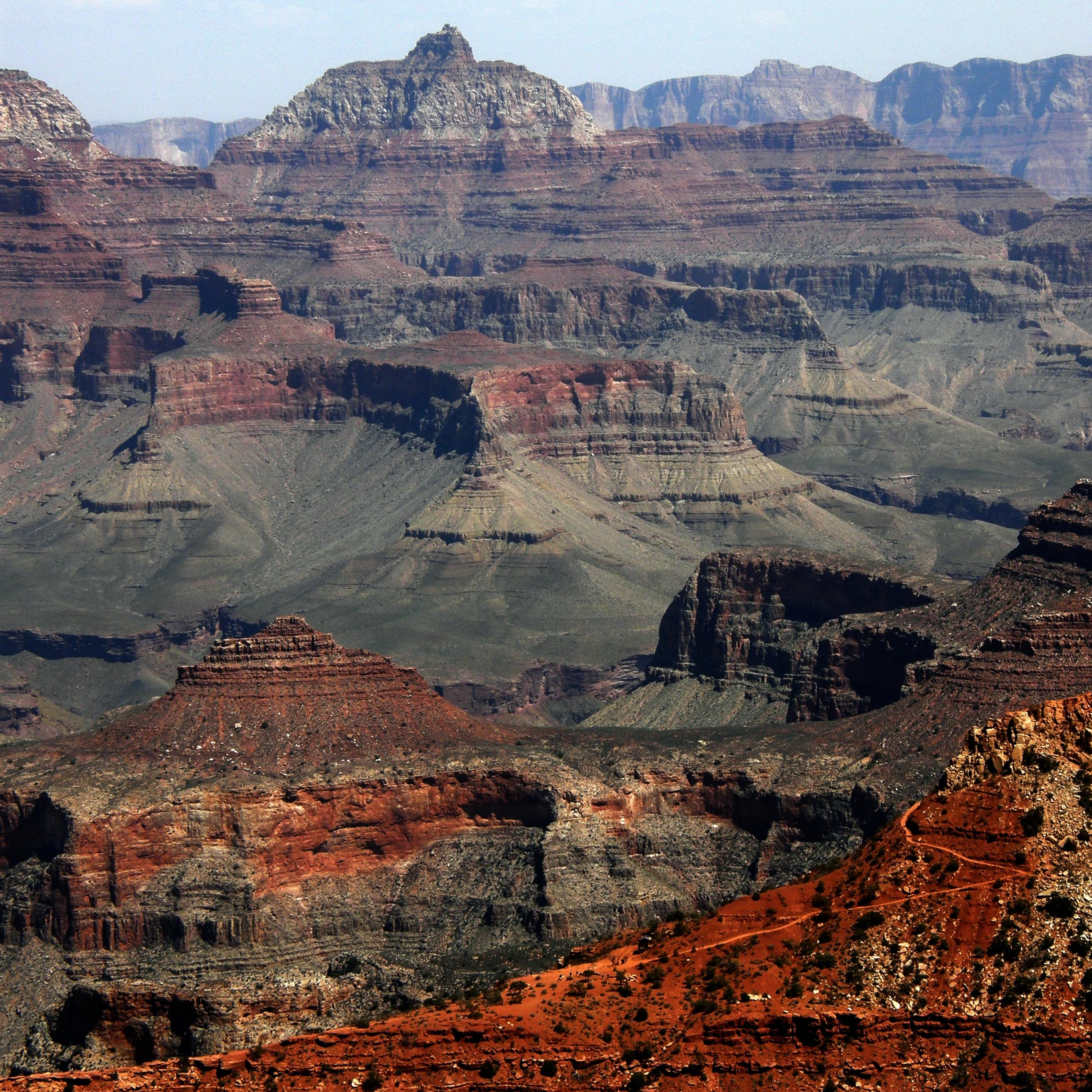 Grand Canyon, from South Rim near Visitor Center.